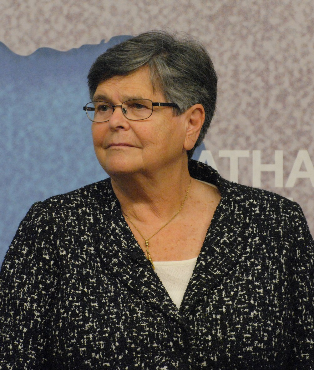 Ruth Dreifuss, President of Switzerland (1999); Minister of Home Affairs (1993-2002) Chatham House, More Police or More Doctors? How to Best Tackle Illicit Drugs, 6 November 2014